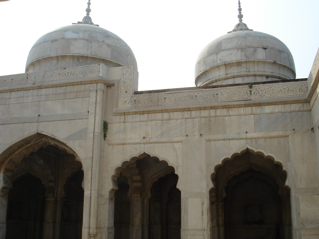 Moti Masjid